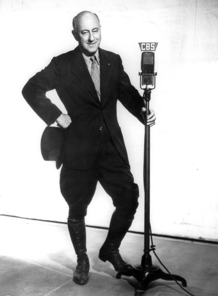 Publicity photo of director Cecil B. DeMille. DeMille took on the job of producing the radio program Radio Theatre for CBS radio in 1937 in addition to his film work.